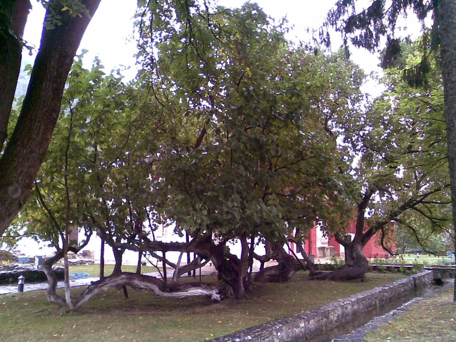 Natural Monument Sham-dud. Black mulberry whose age is estimated to be about 750 years old. Located in the courtyard of the monastery of the Pec Patriarchate. Photo: Zoran Stevic